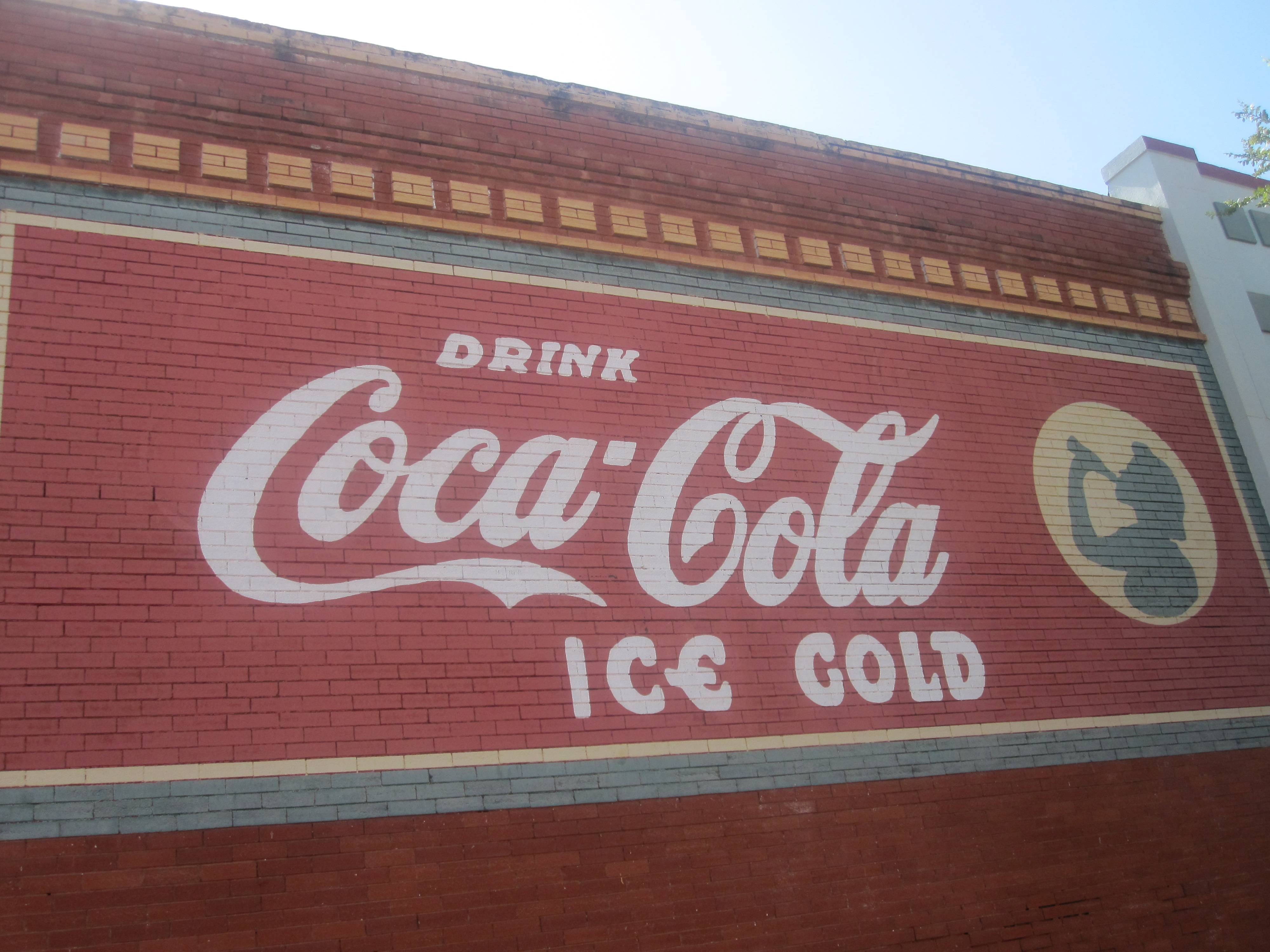 I took photo in CO City, TX, with Canon camera.